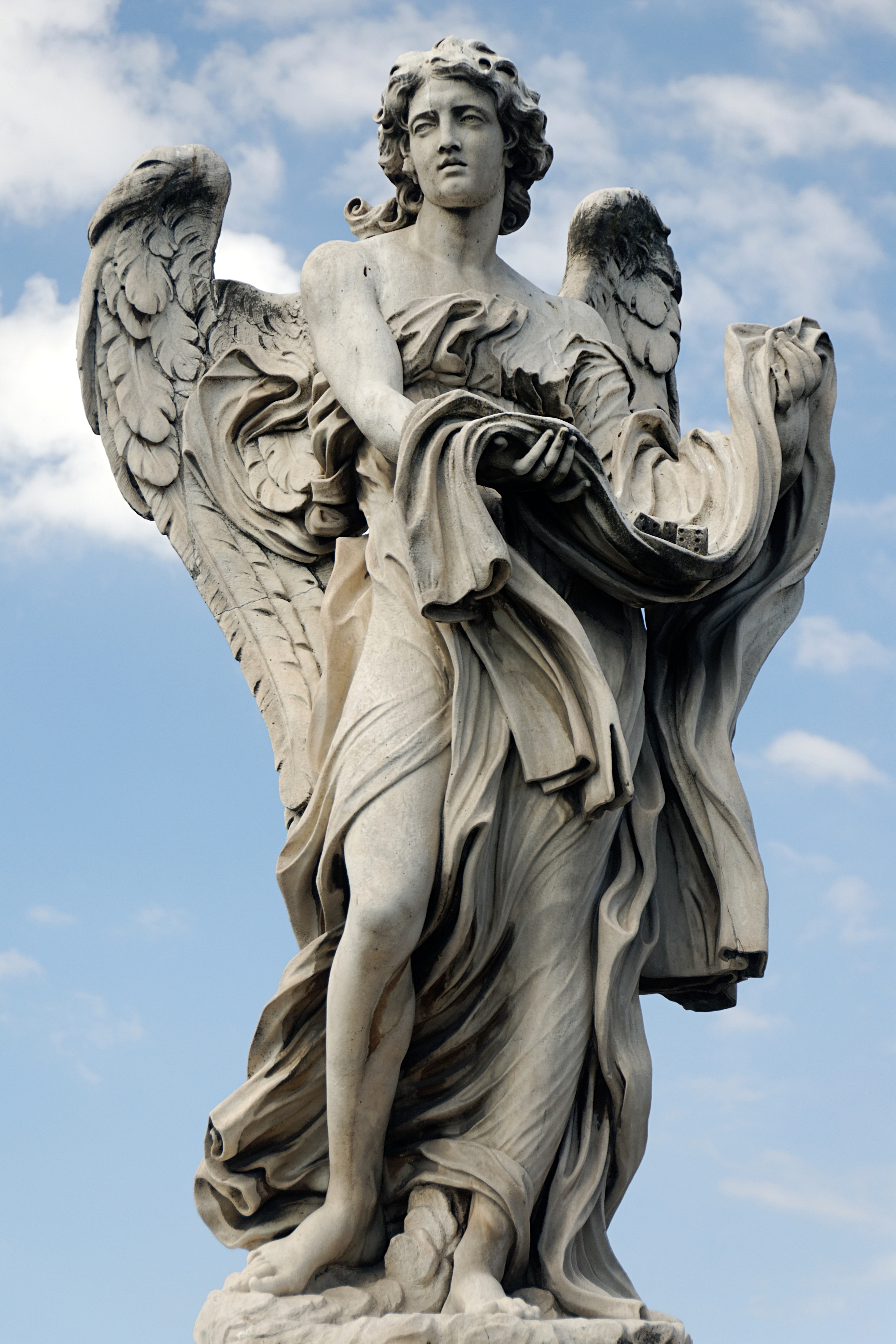 Angel bearing a garment and dice by Paolo Naldini, with the inscription “super vestimentum meum miserunt sortem” ("they cast lots upon my vesture", Psalms 22:19), western side of the Ponte Sant'Angelo à Rome.